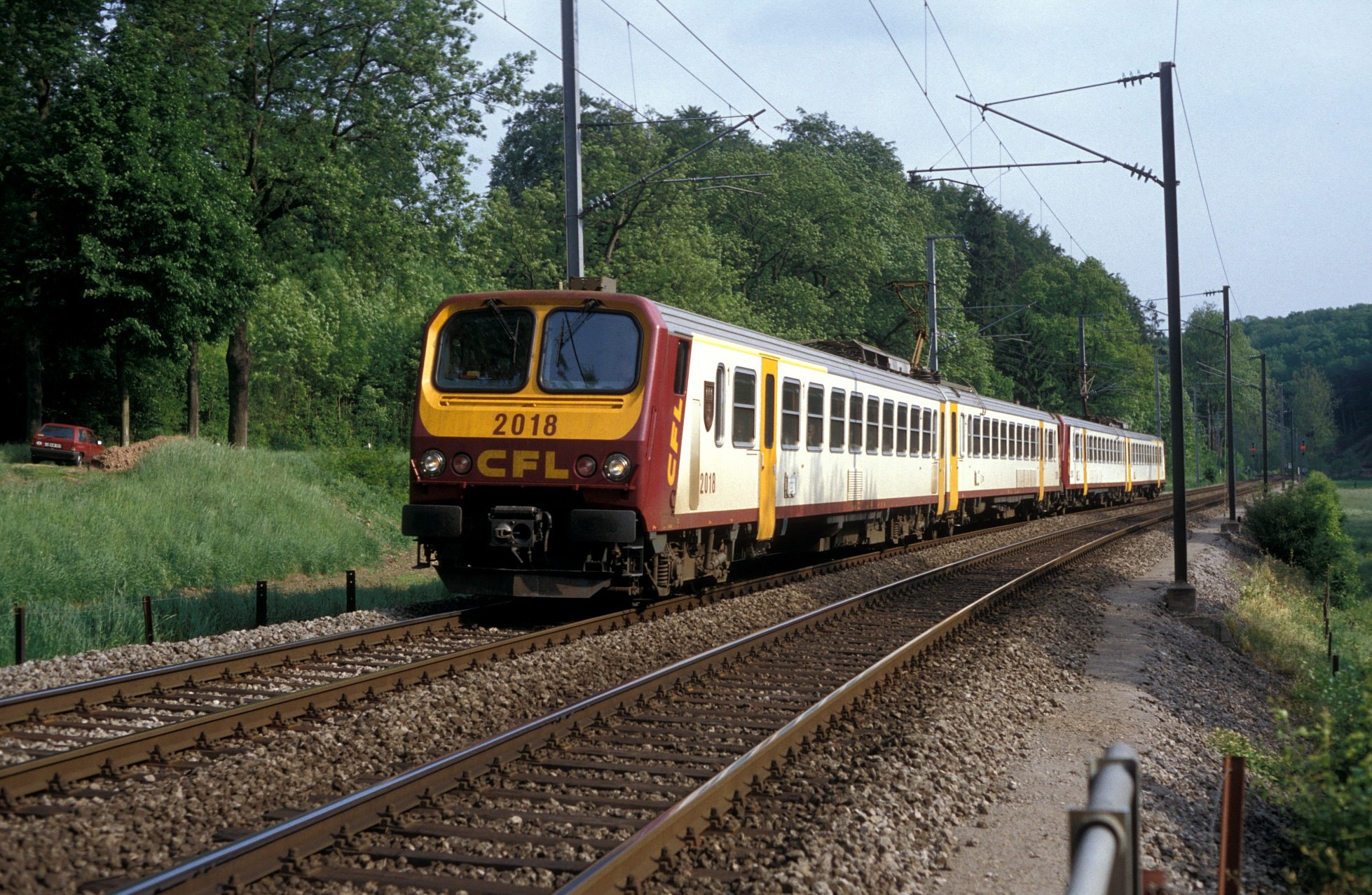 Double unit of luxemburgish type Z2 EMUs CFL 2018 and CFL 2007 in a passenger service on the northern line near Colmar-Berg